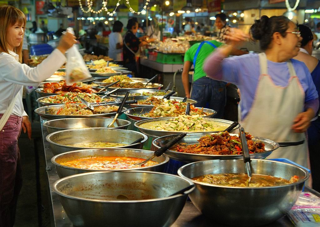 A market stall, at Thanin market in Chiang Mai, selling ready cooked food.